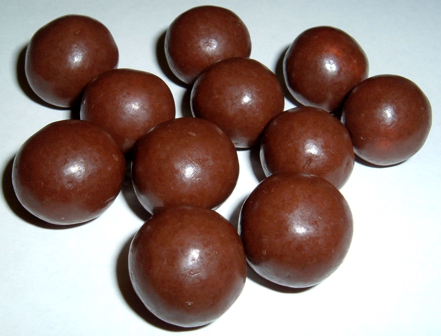 Whoppers purchased April 2005 in Atlanta, GA, USA